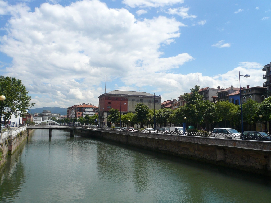 Oiartzun river, in Orereta.